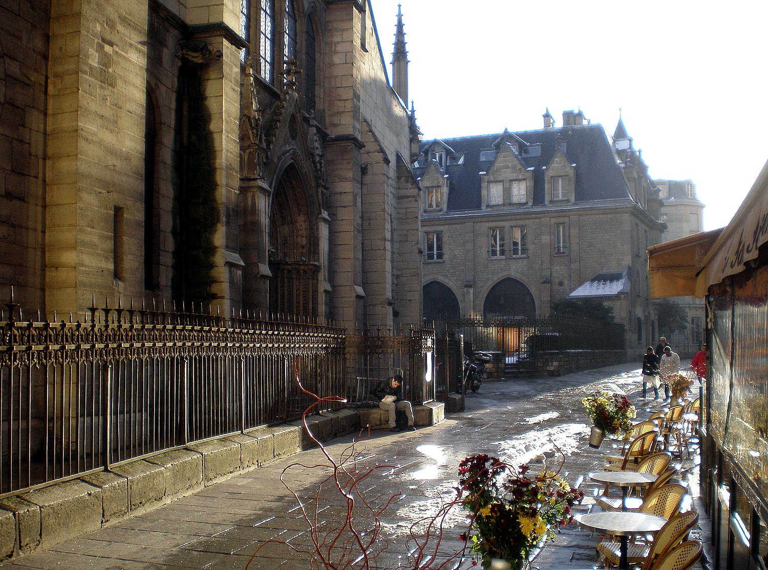 Rue des pretres de Saint-Severin - Paris